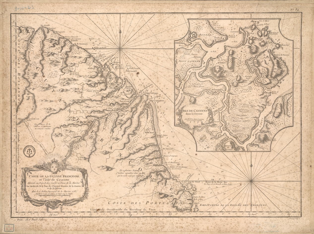 This map of French Guiana and the island of Cayenne was made in 1763 by Jacques Bellin (1703-72), a prolific cartographer assigned the Ministry of the French Navy.